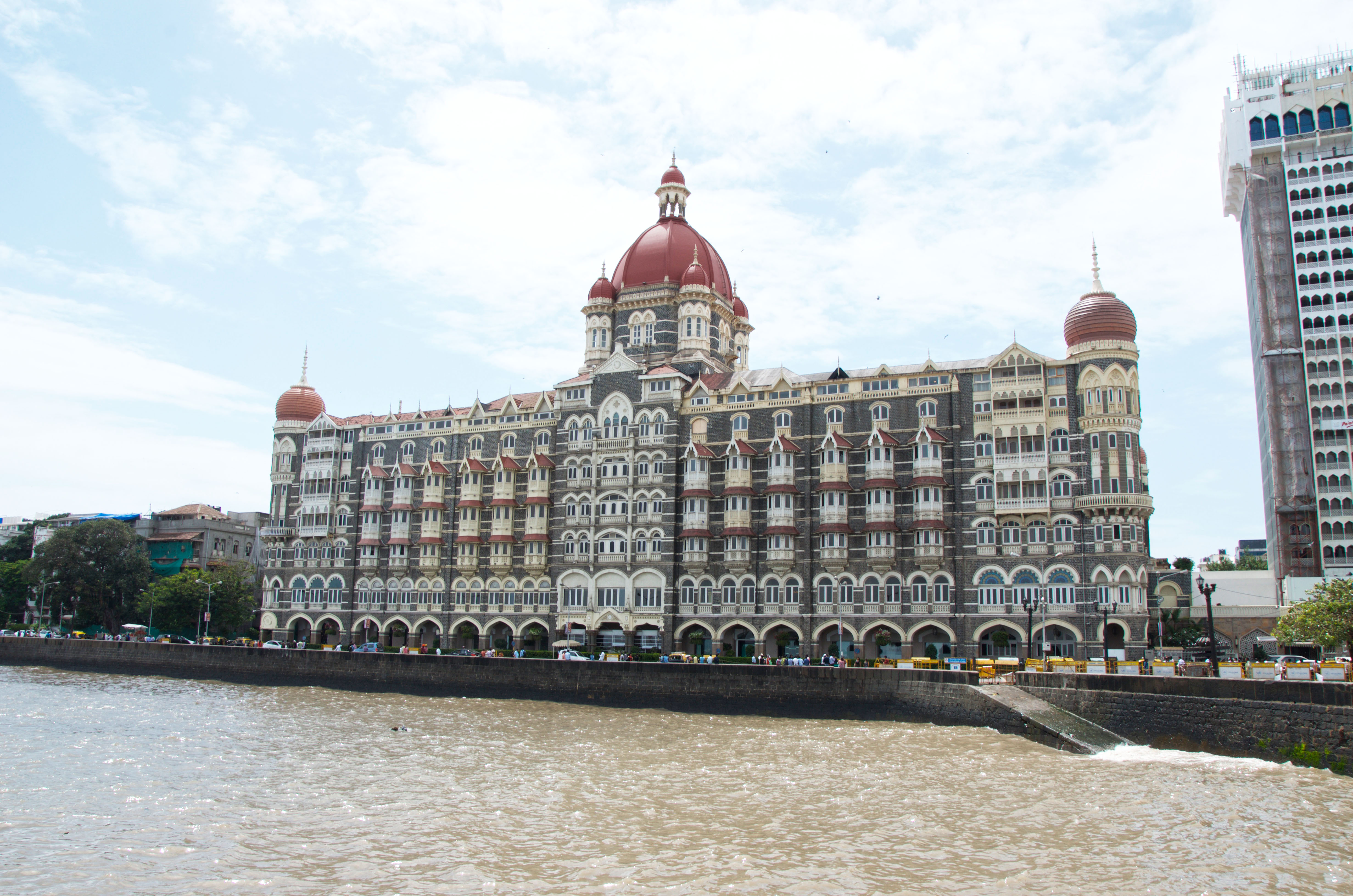 The majestic Taj Mahal Hotel from the gateway of India